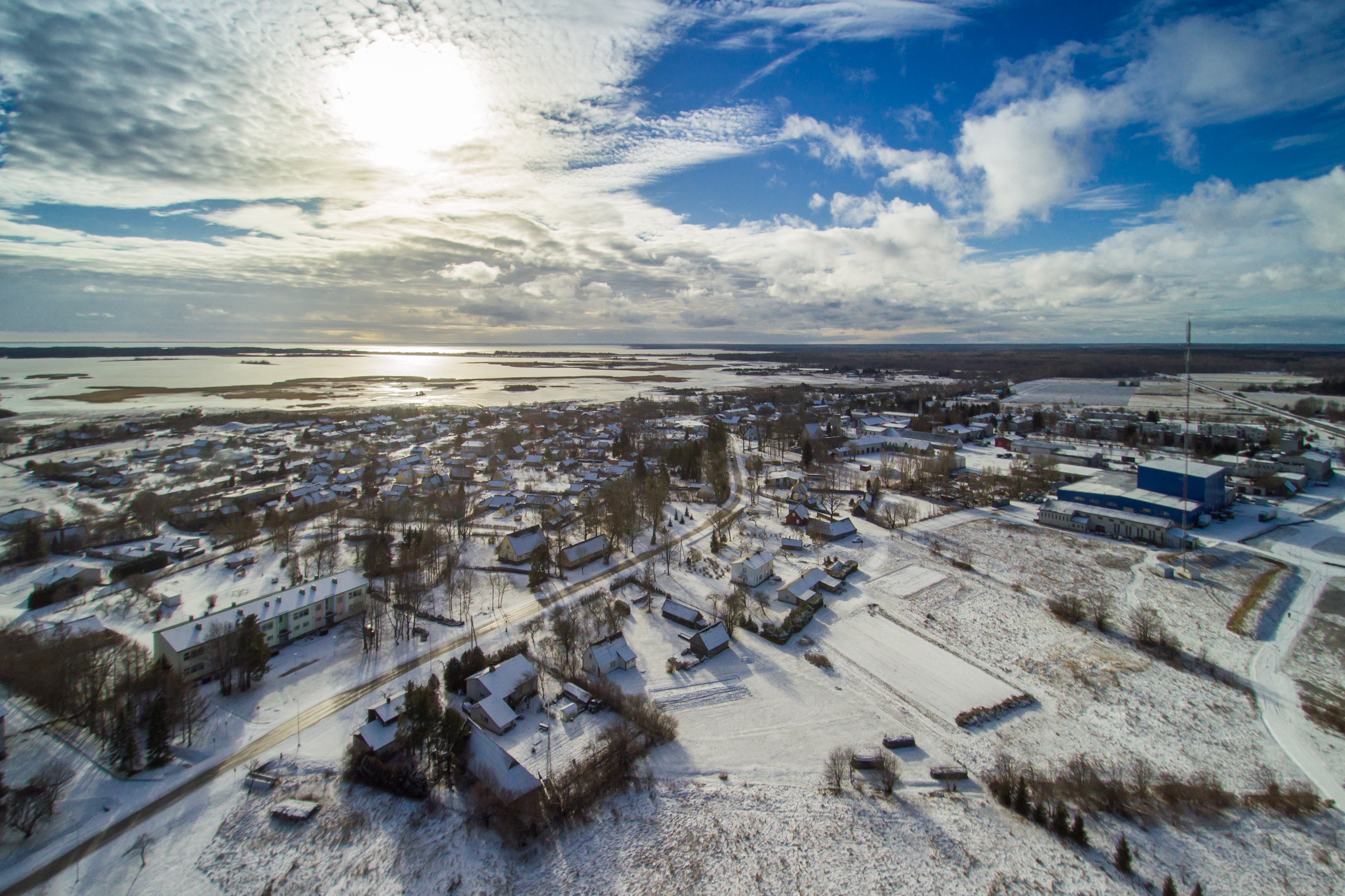 Aerial view to Käina, Hiiumaa 2016